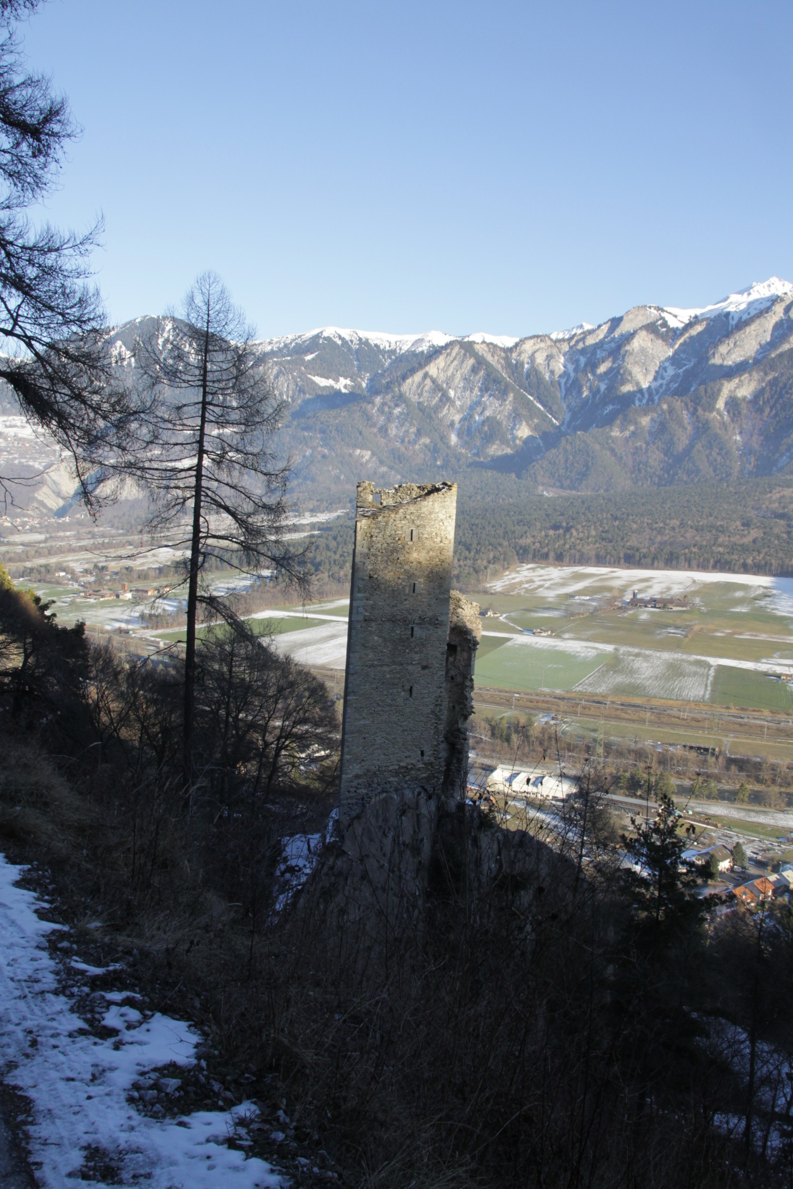 Ruine Haldenstein/Switzerland